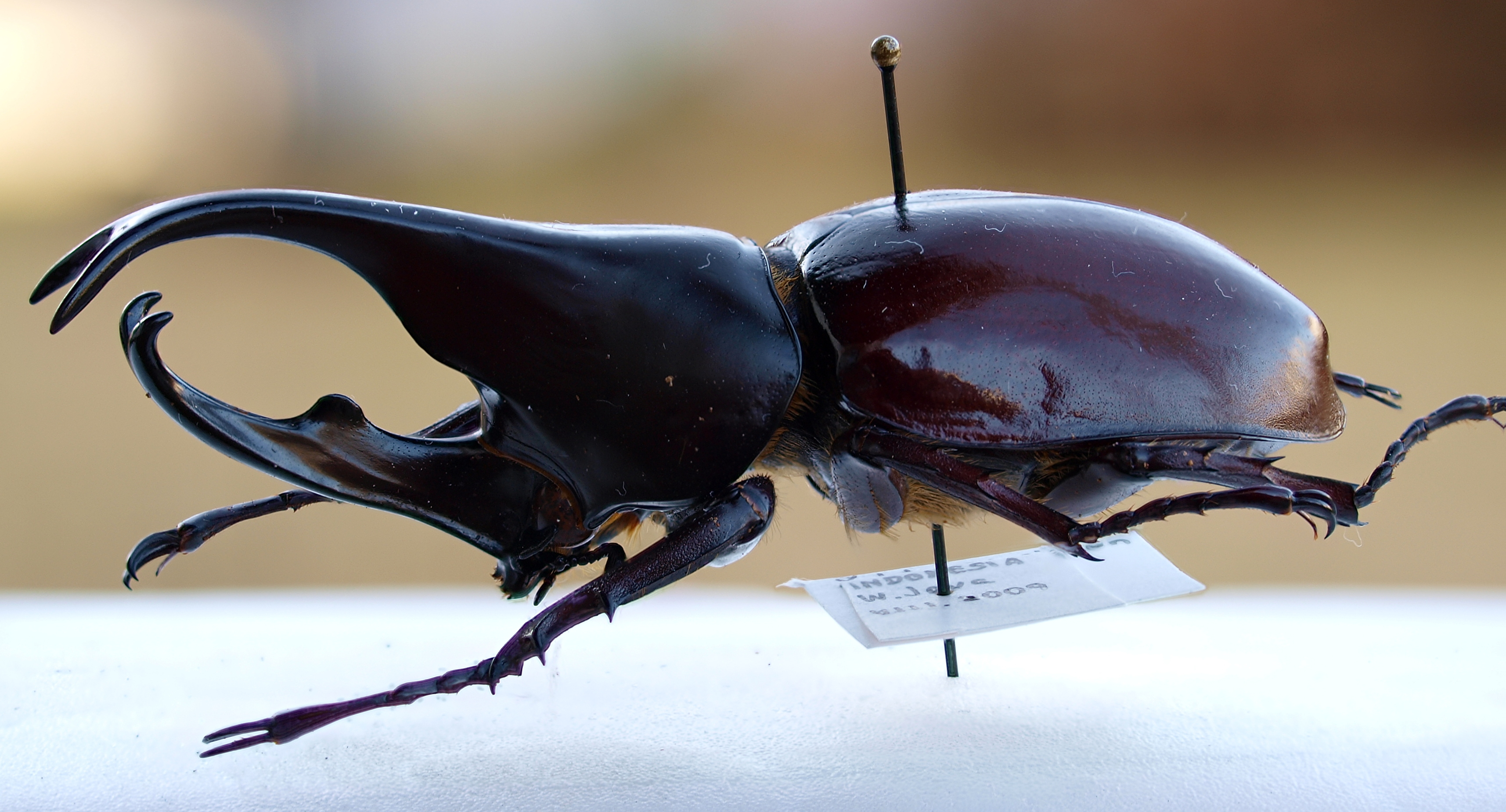 Xylotrupes gideon, male